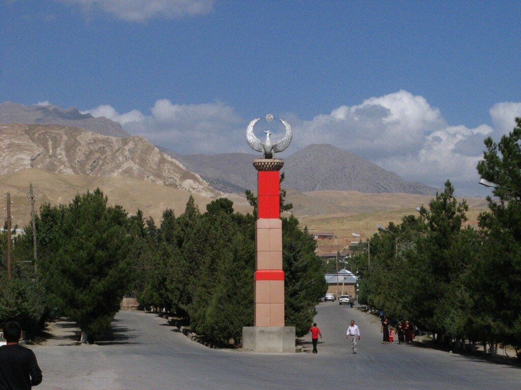 City of Boysun, Surkhandarya, Uzbekistan